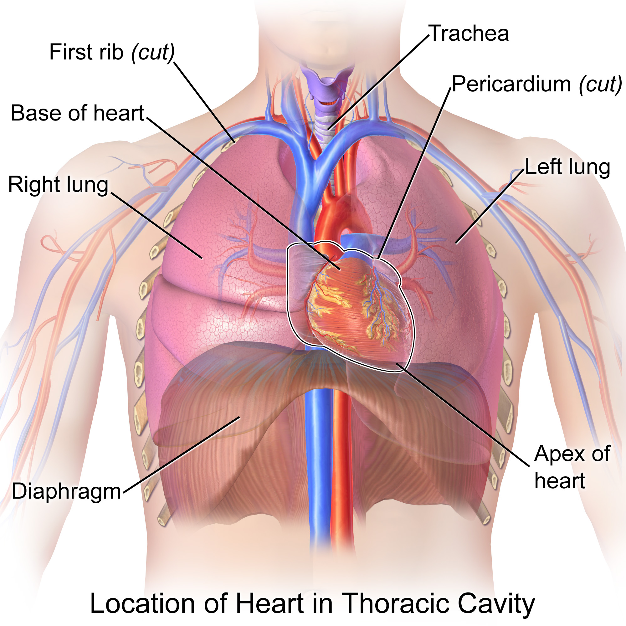 Location of Heart in Thoracic Cavity. See a related animation of this medical topic.